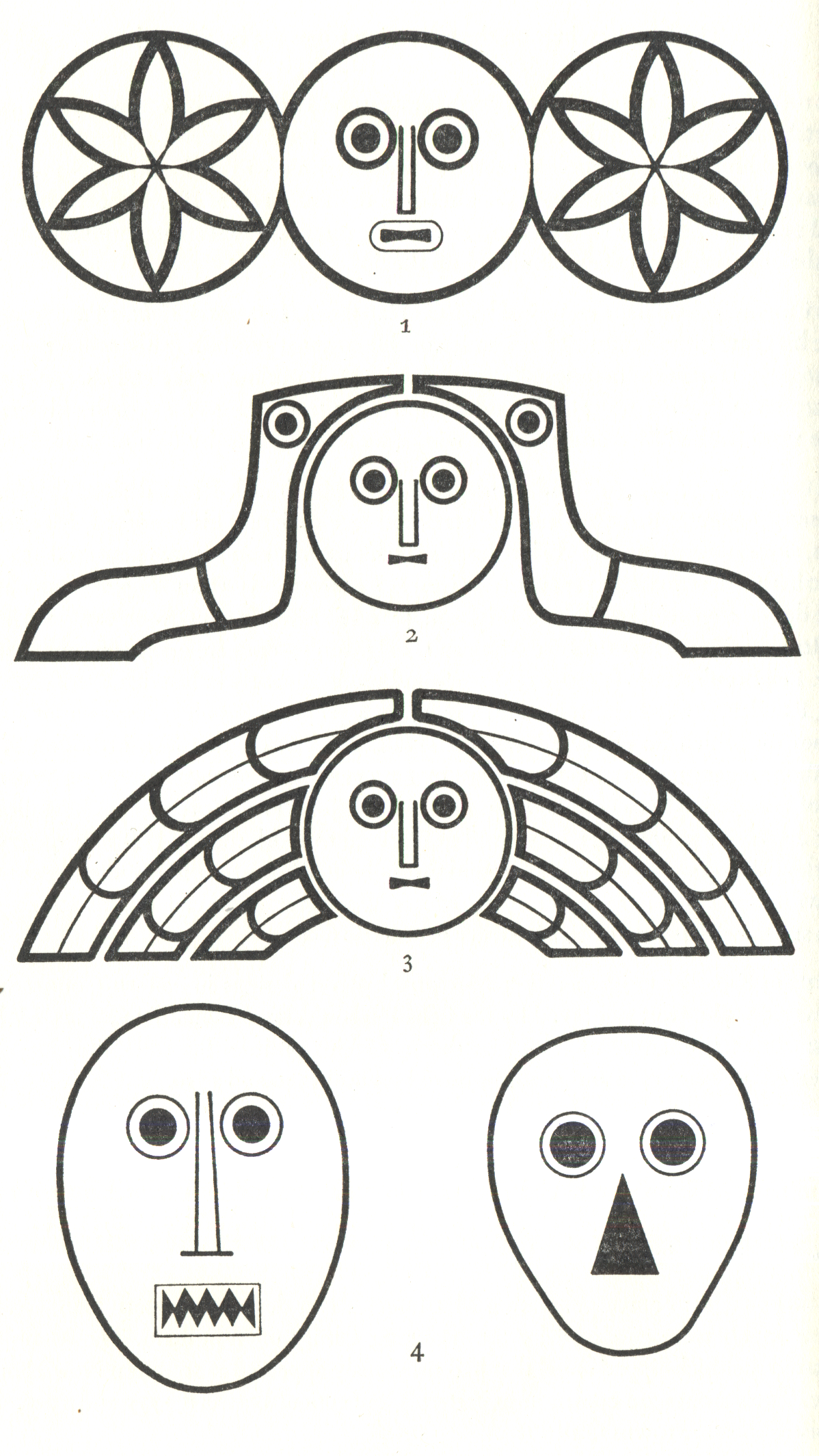 gravestone designs by John Hartshorn (ca. 1650-1738), mainly active around Haverhill, Mass. around 1700-1720, from ca. 1720 around Norwich, Mass.